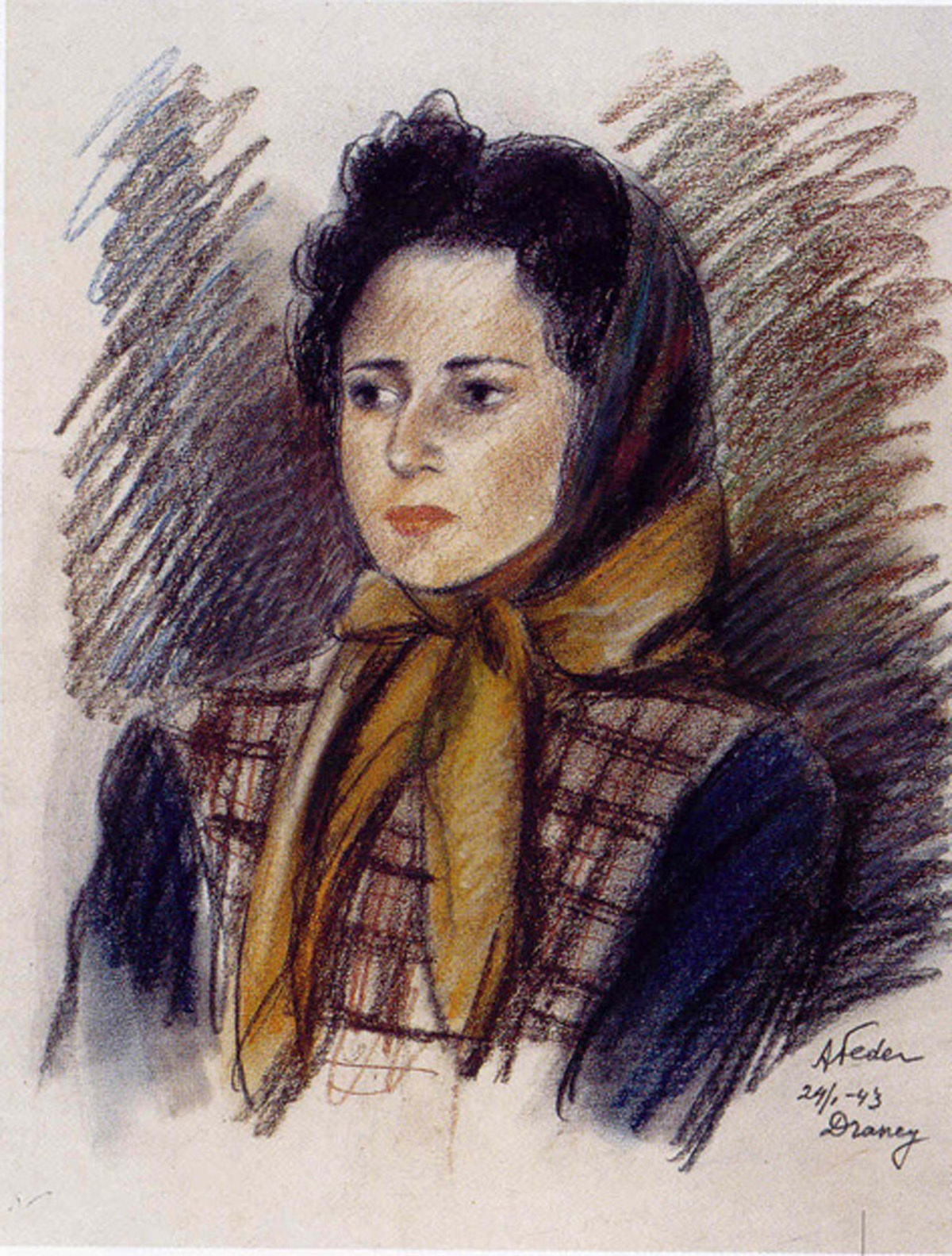 Charcoal sketch of woman with kerchief in the Drancy Transit Camp.